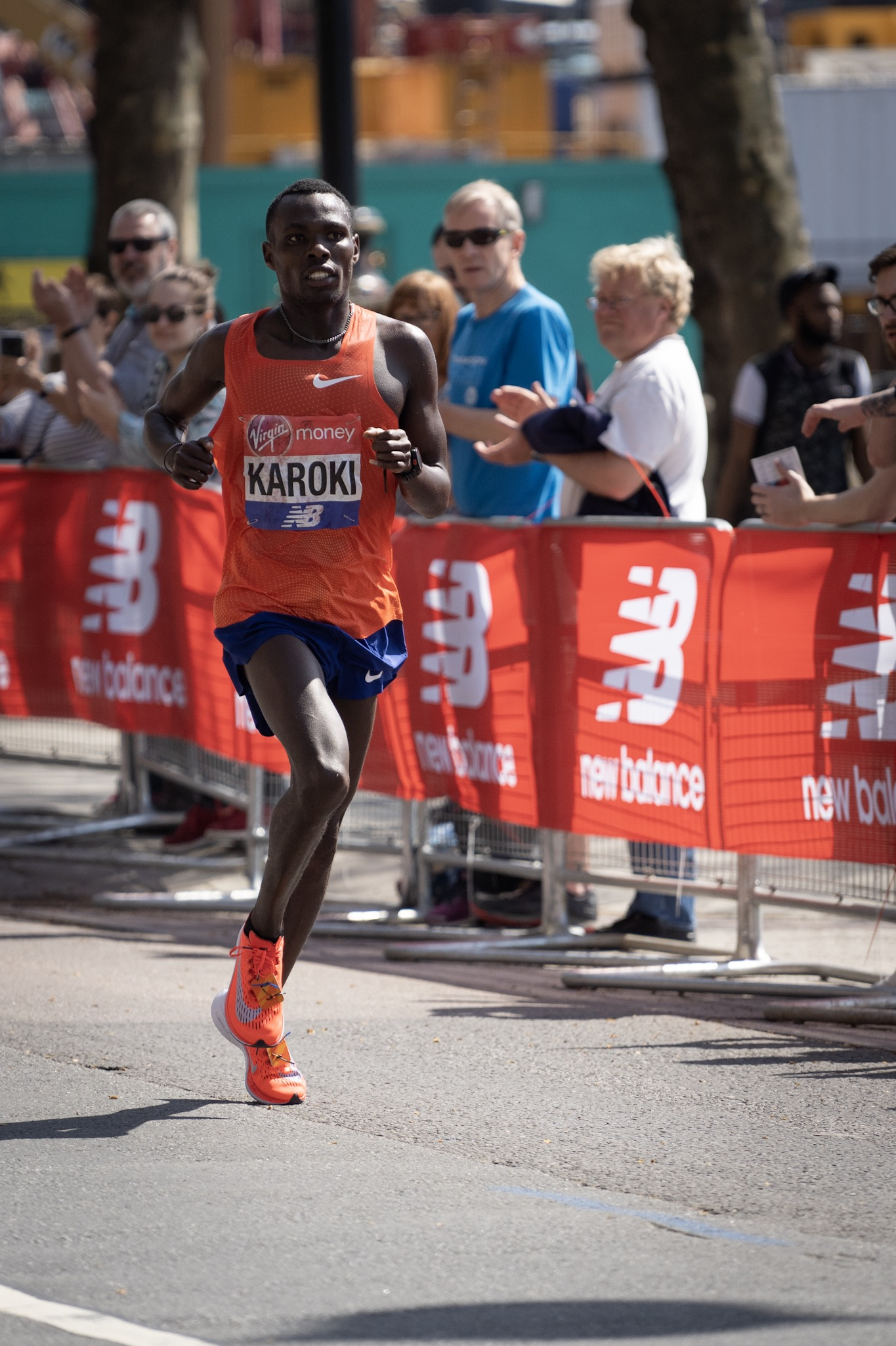 2018 London Marathon